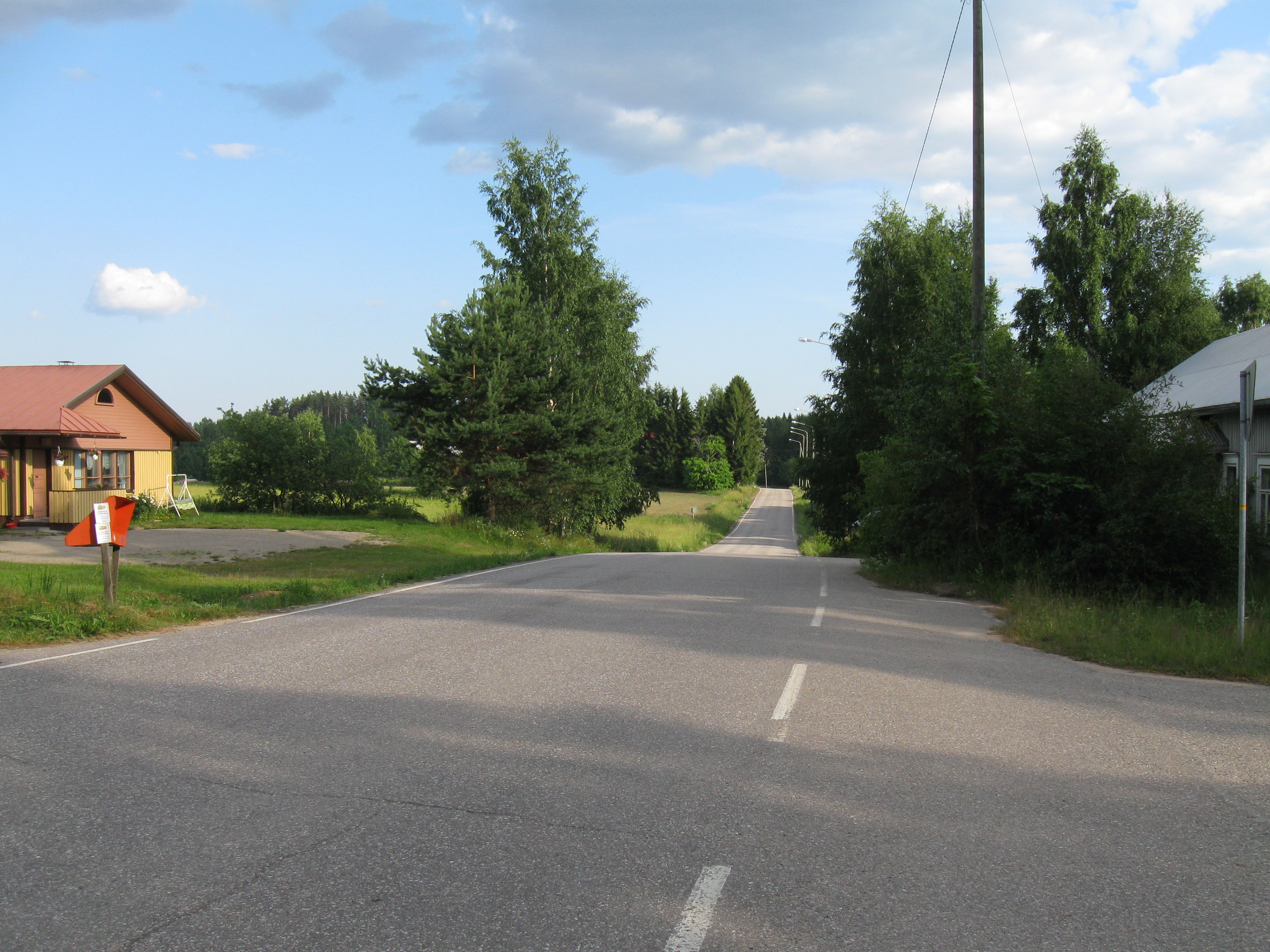 Connecting road 4021 at Uukuniemi, Parikkala, Finland, seen at the Uukuniemi church towards South.